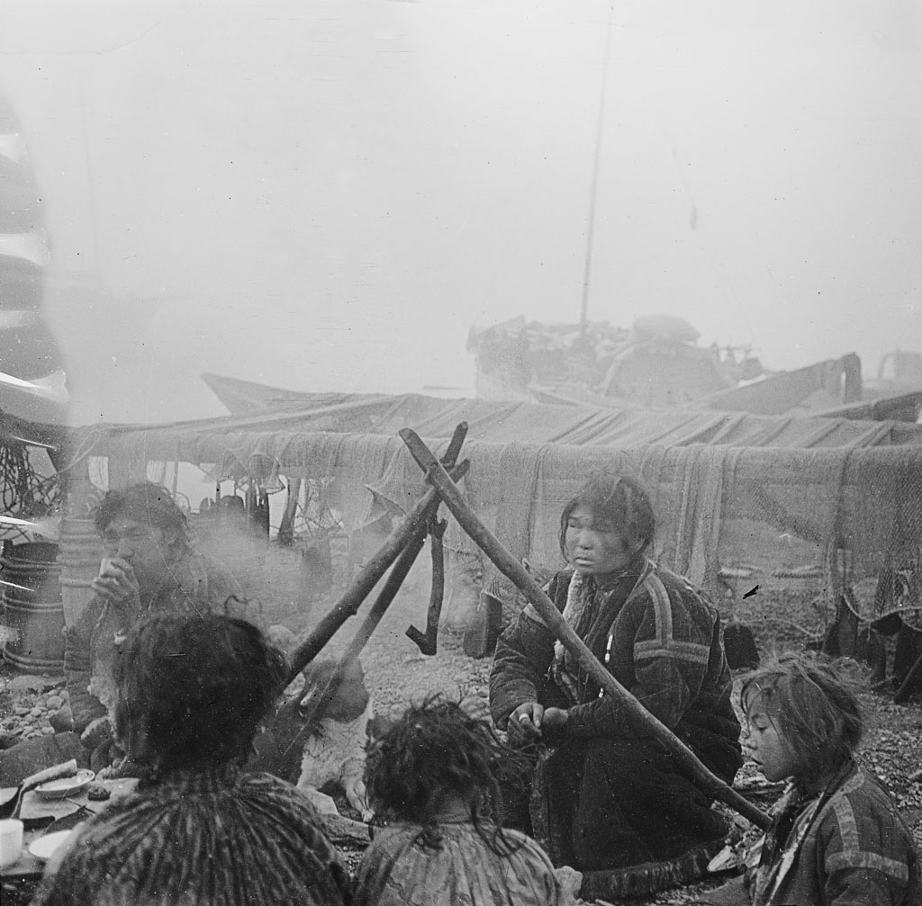 Tittel / Title: Ketere (jenisejostjaker) (folkegruppe) samlet rundt et bål ved stranden. Motiv / Motif: I bakgrunnen henger fiskegarn. Ett av bildene fra Nansens reise til Sibir i perioden 2. august - 26. oktober 1913. Dato / Date: 16. september 1913 Fotograf / Photographer: Fridtjof Nansen (1861-1930) Sted / Place: Russland, Sumarokova Eier / Owner Institution: Nasjonalbiblioteket / National Library of Norway Lenke / Link: Bildesignatur / Image Number: bldsa_FN_g03f037 / 3f088